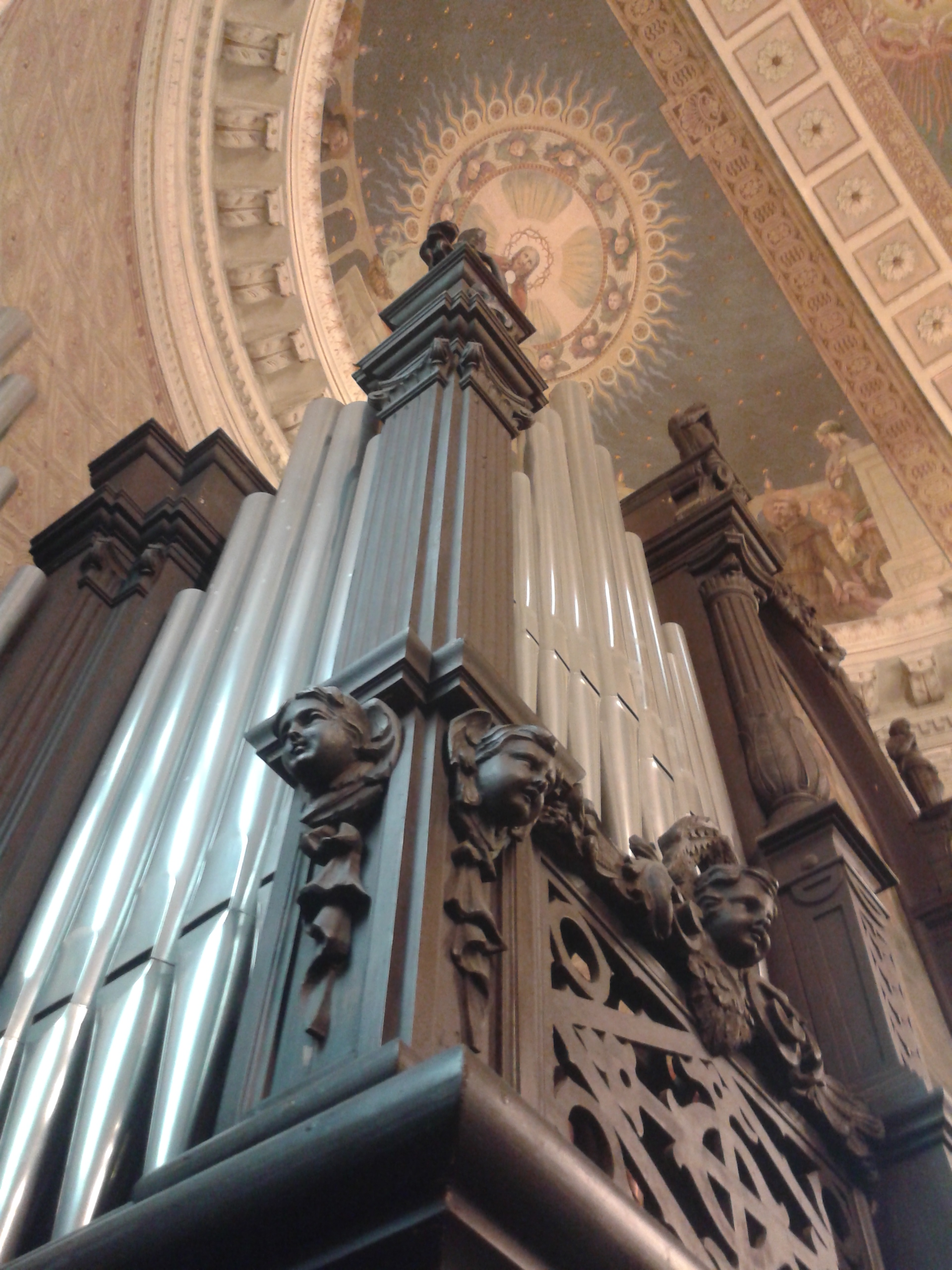 Organo della Chiesa San Giovanni Battista a Cappella di Scorzè